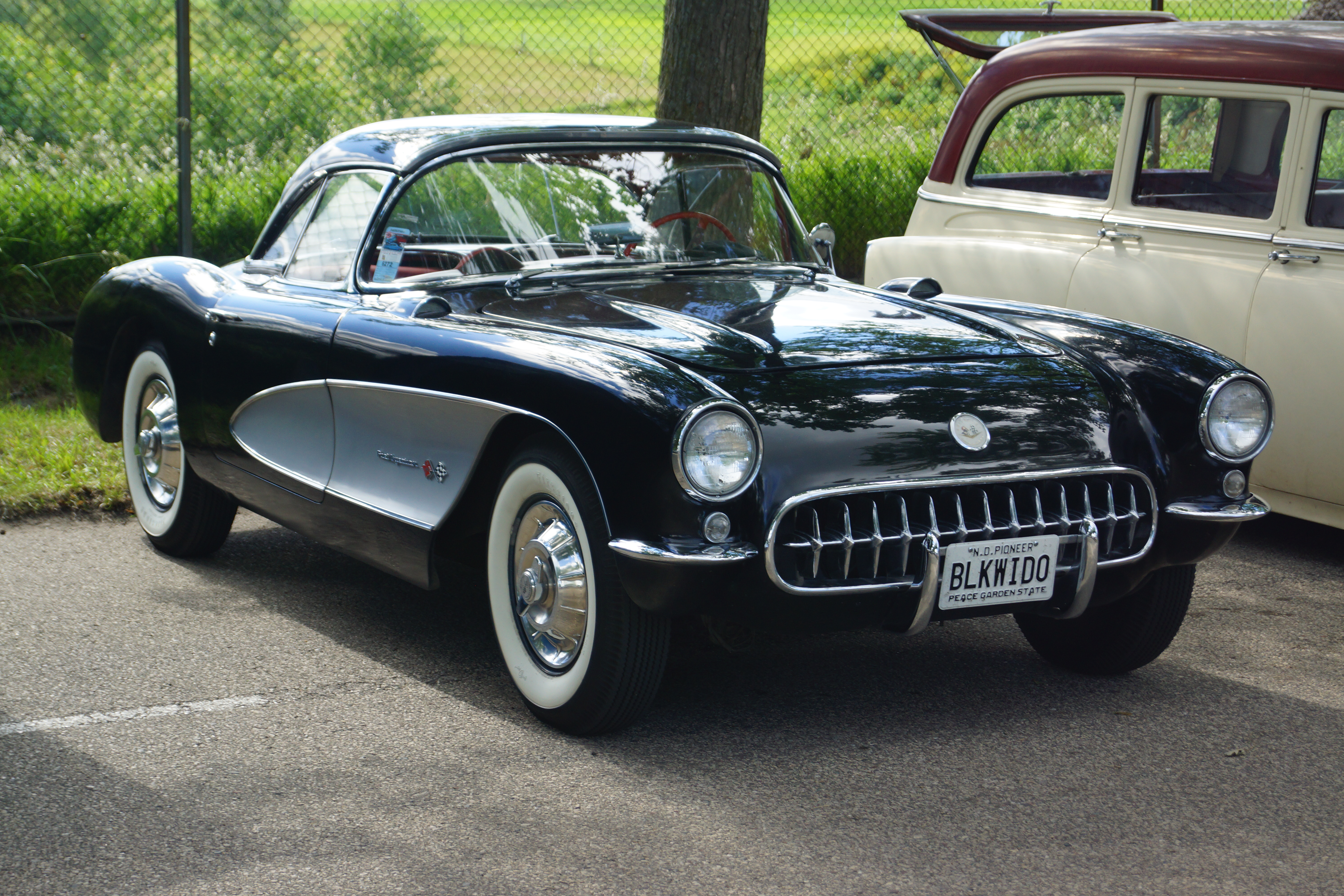 Minnesota Street Rod Association (MSRA) “BACK TO THE 50′s” 44th Annual Car Show June 23-25, 2017 Minnesota State Fairgrounds St. Paul Minnesota Click here for previous "Back to the 50's" pictures.. Click here for more car pictures at my Flickr site. Or here for my Car Crazy Tumblr site. Or on Twitter @DVS1mn.